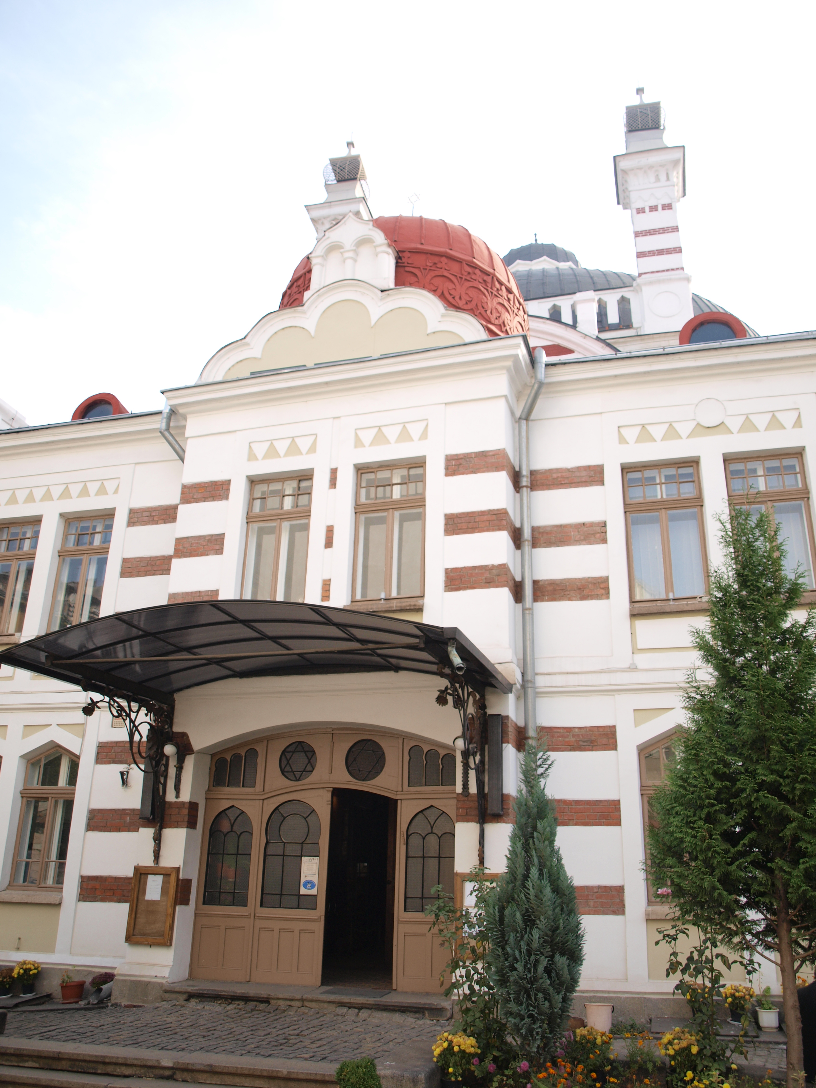 Sofia Synagogue, the entrance